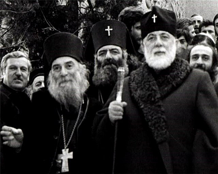 Catholicos-Patriarch of All Georgia Ilia II